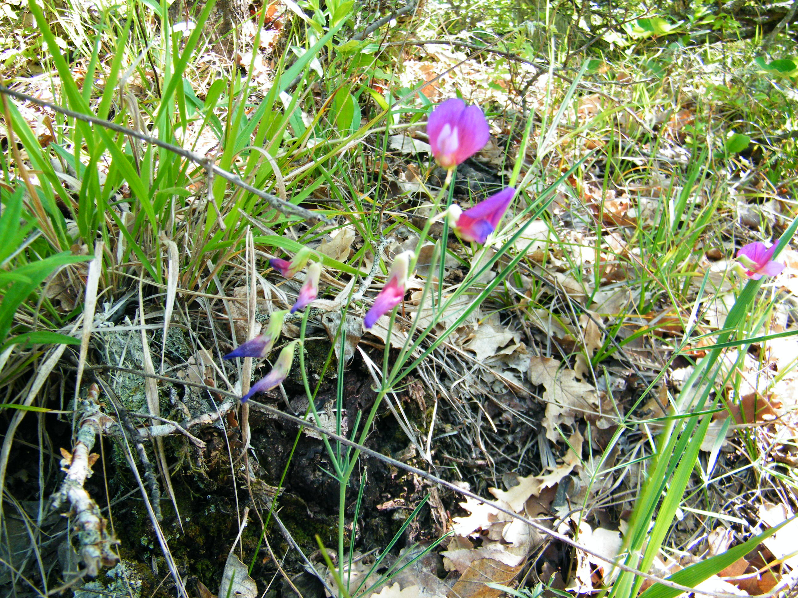 Lathyrus digitatus in Laspi